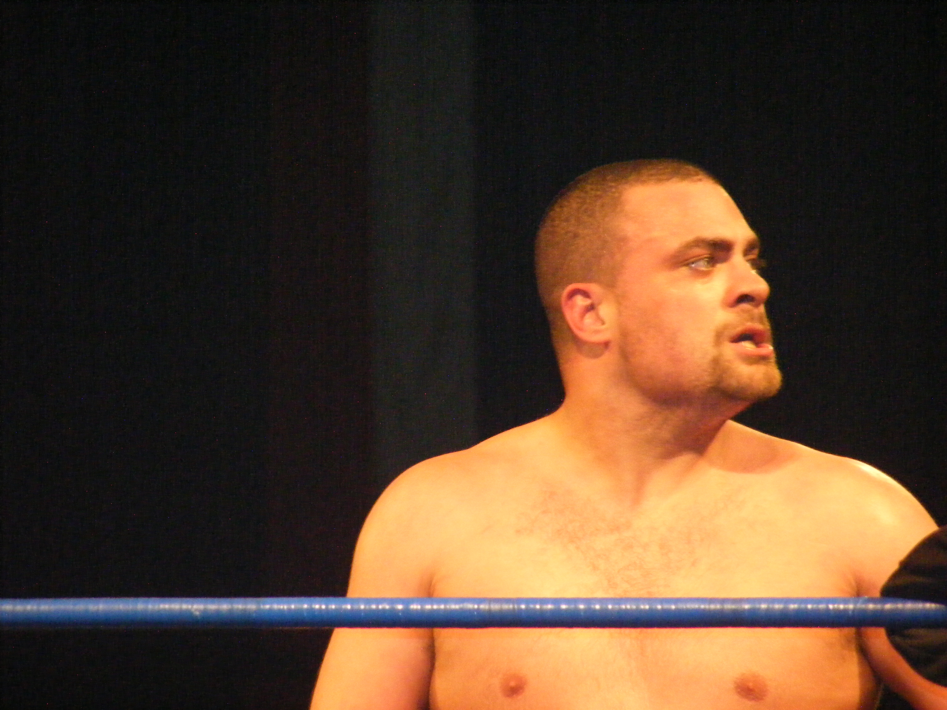 Professional wrestler Eddie Kingston at a Chikara show in May 2009